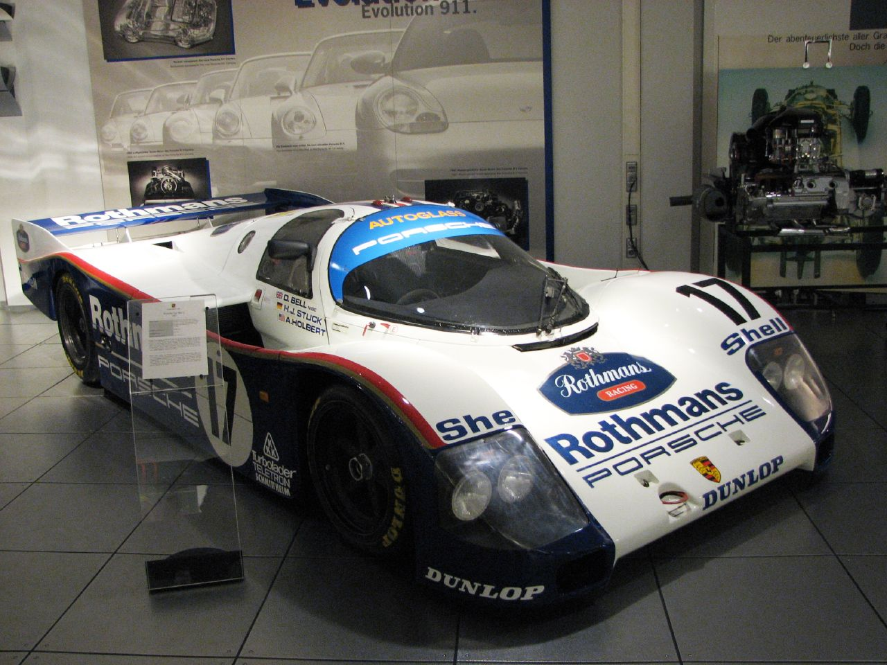 Rothmans-sponsored factory-run Porsche 962C chassis 006, the 1987 24 Hours of Le Mans winner (#17 driven by Stuck/Bell/Holbert), on display in the Porsche Museum.stuttgart 111